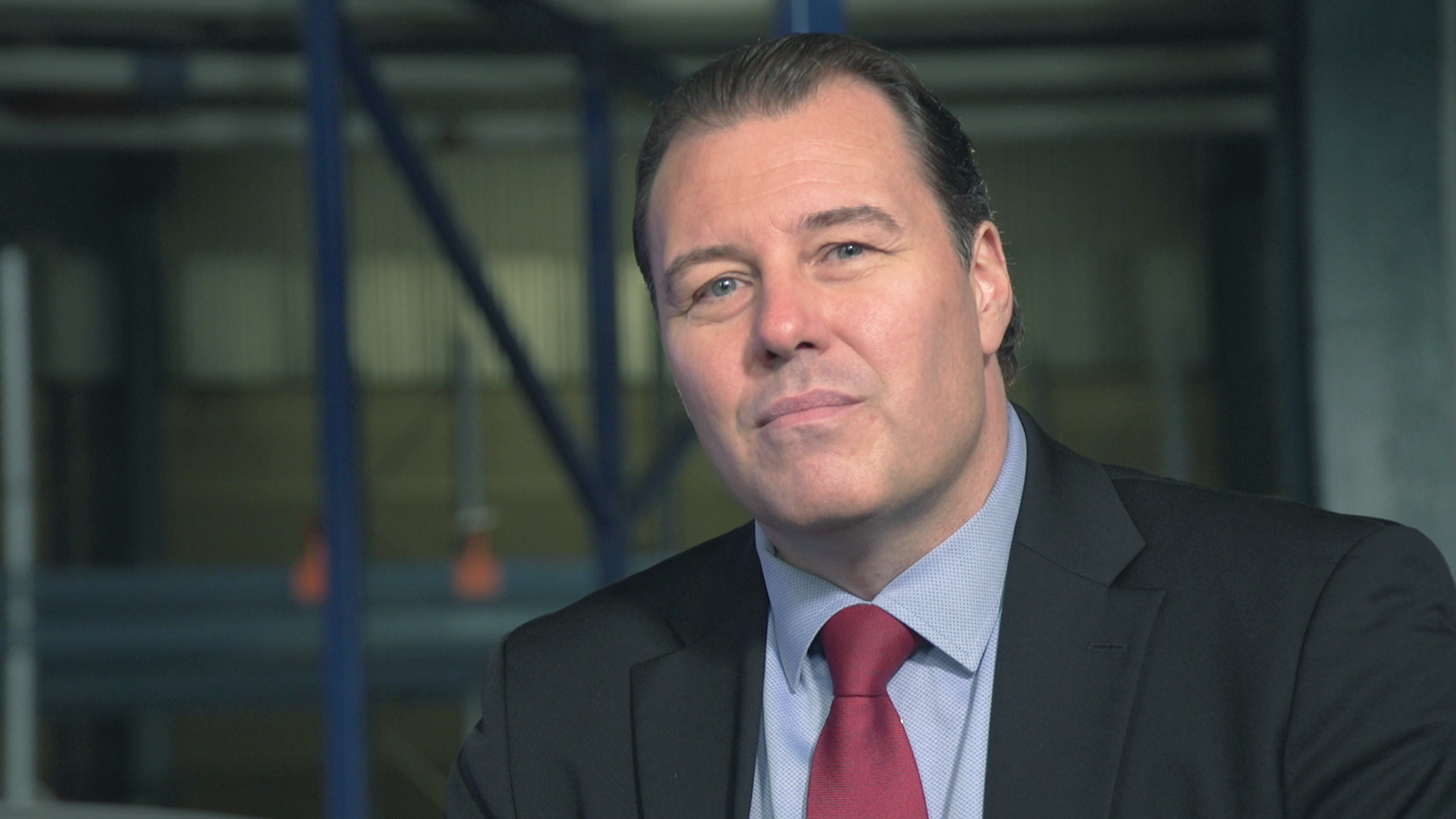 Dr Jonas Ekfeldt